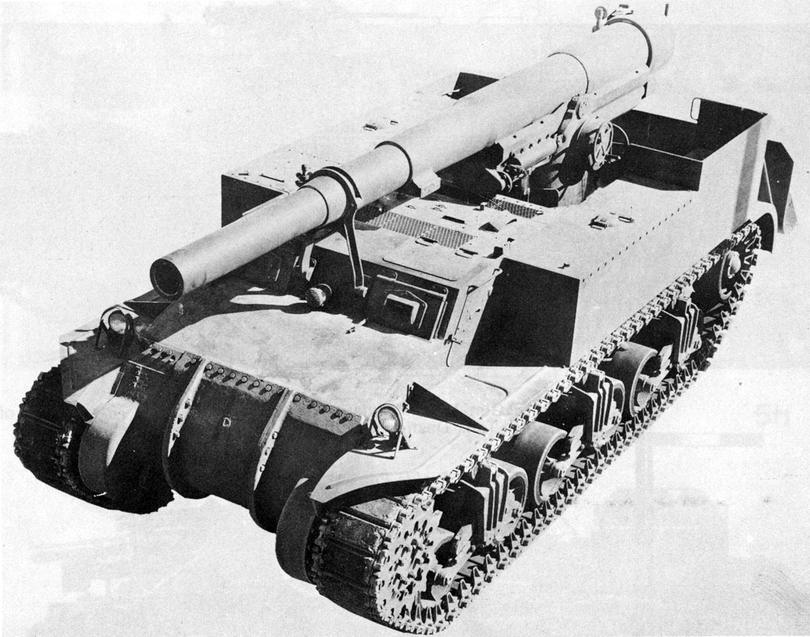 155 mm Gun Motor Carriage M12